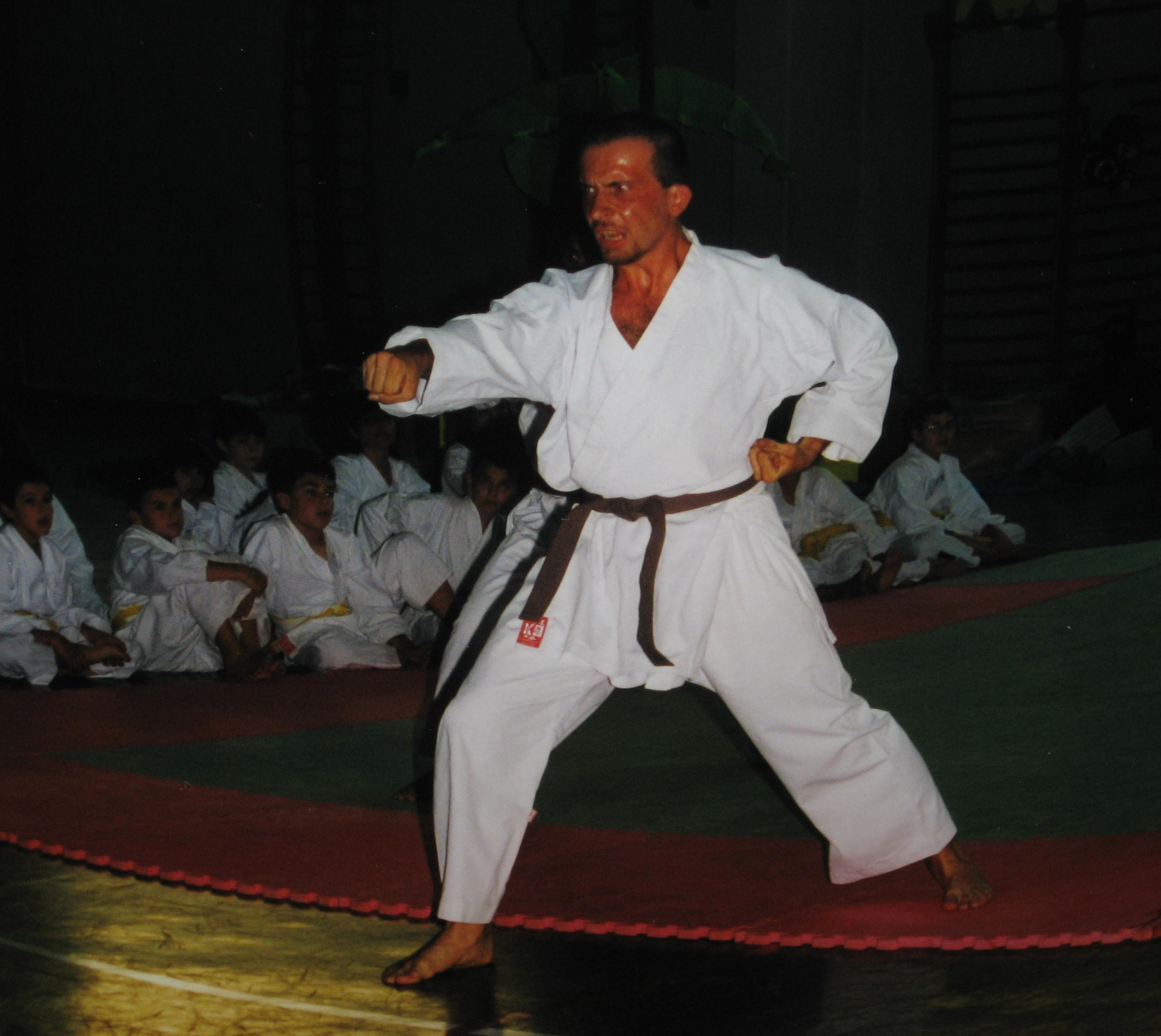 Subject:this is my best friend during the execution of a kata Author:Luc106 Date:June 1998 Place/Country:Genoa, Italy I release all rights in the public domain.